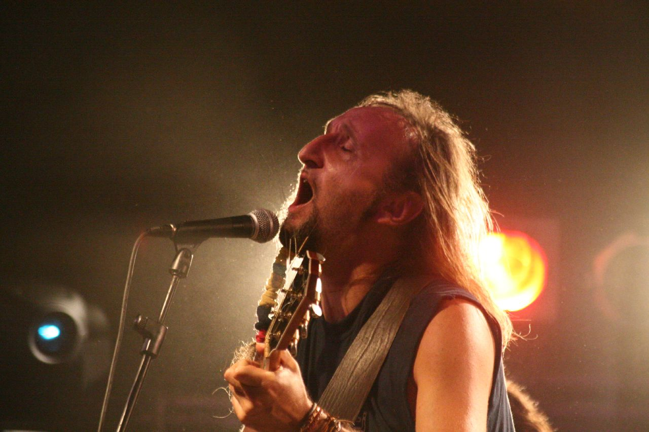 Enrico "Erriquez" Greppi in concert with Bandabardò